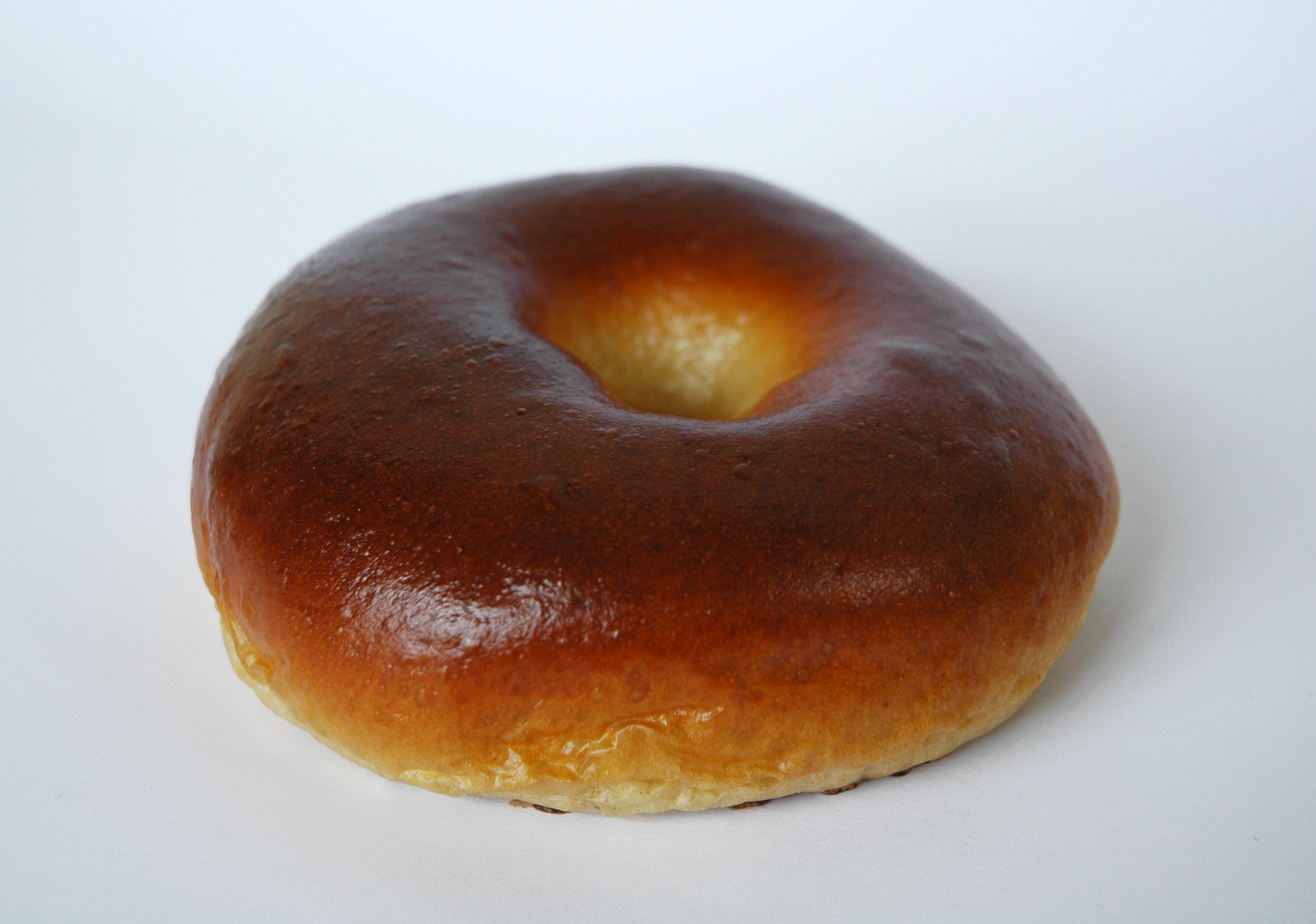 A mastel, a traditional Flemish bread product.